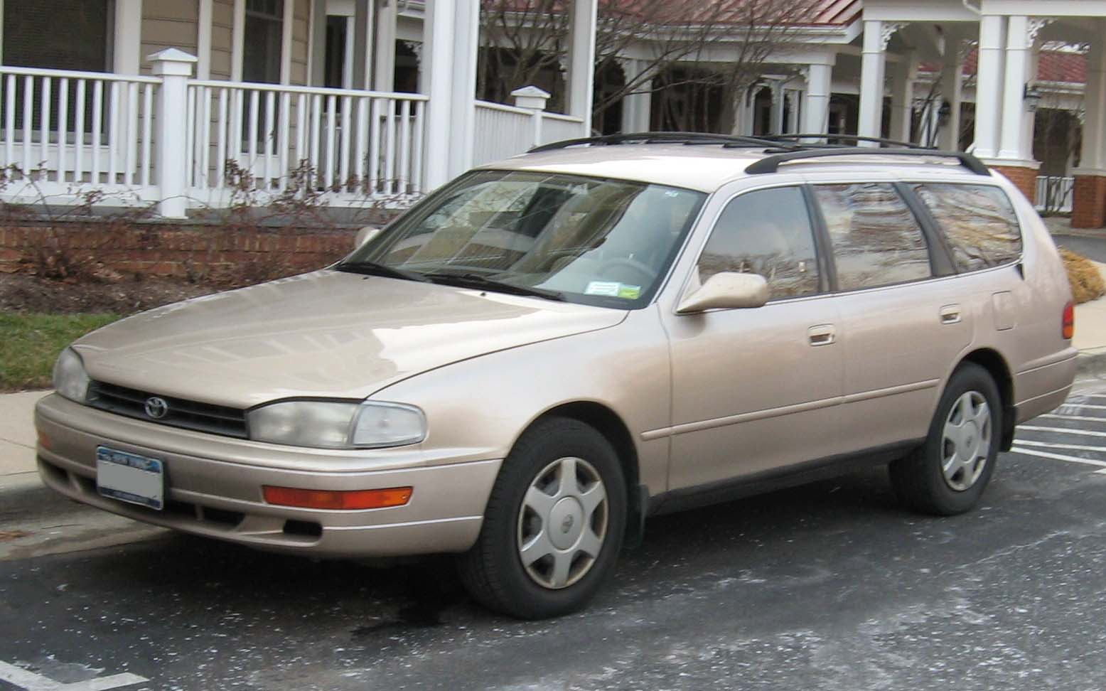 1992-1994 Toyota Camry photographed in USA.